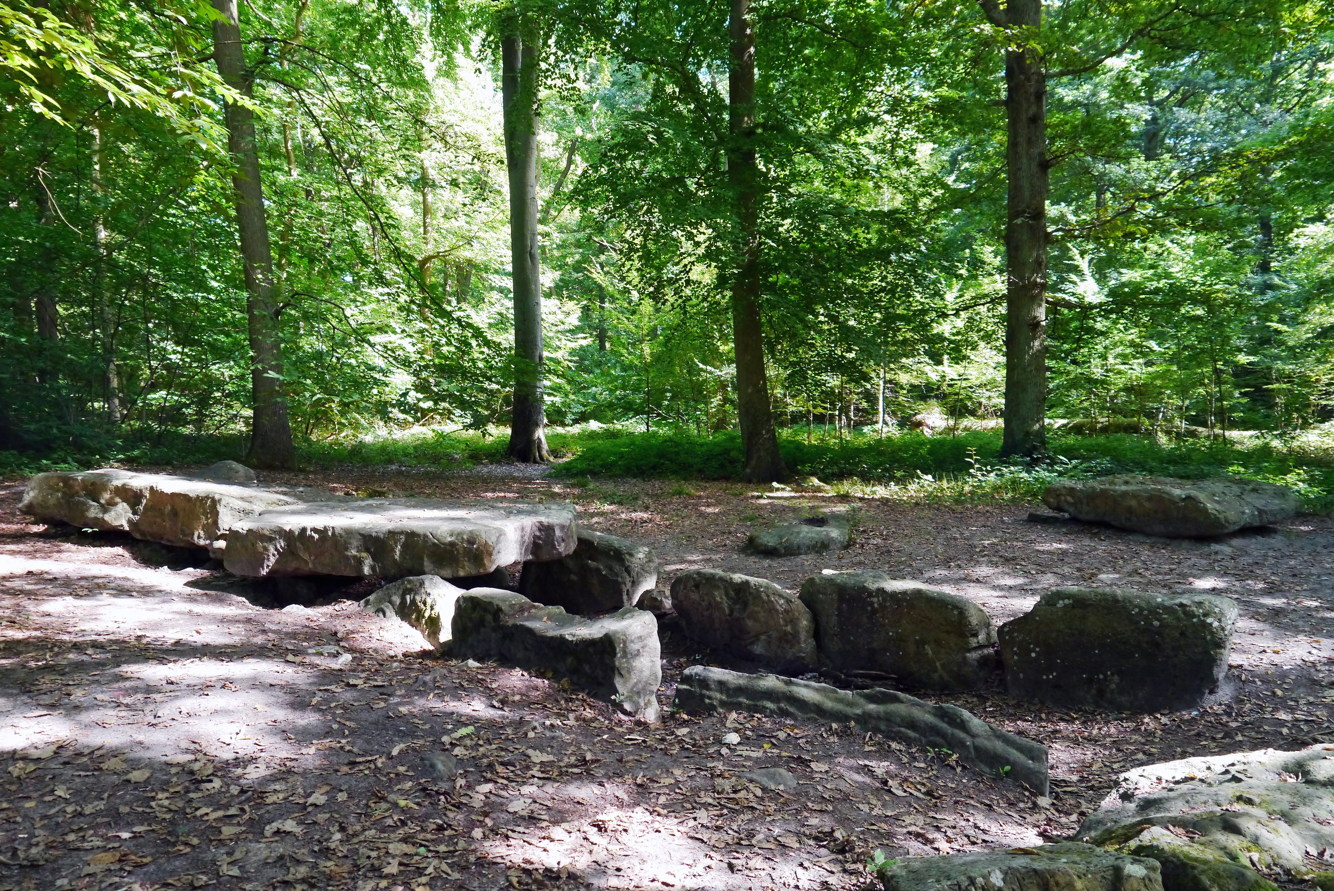 Dolmen of Pierre Turquaise, forêt de Carnelle, Saint-Martin-du-Tertre.